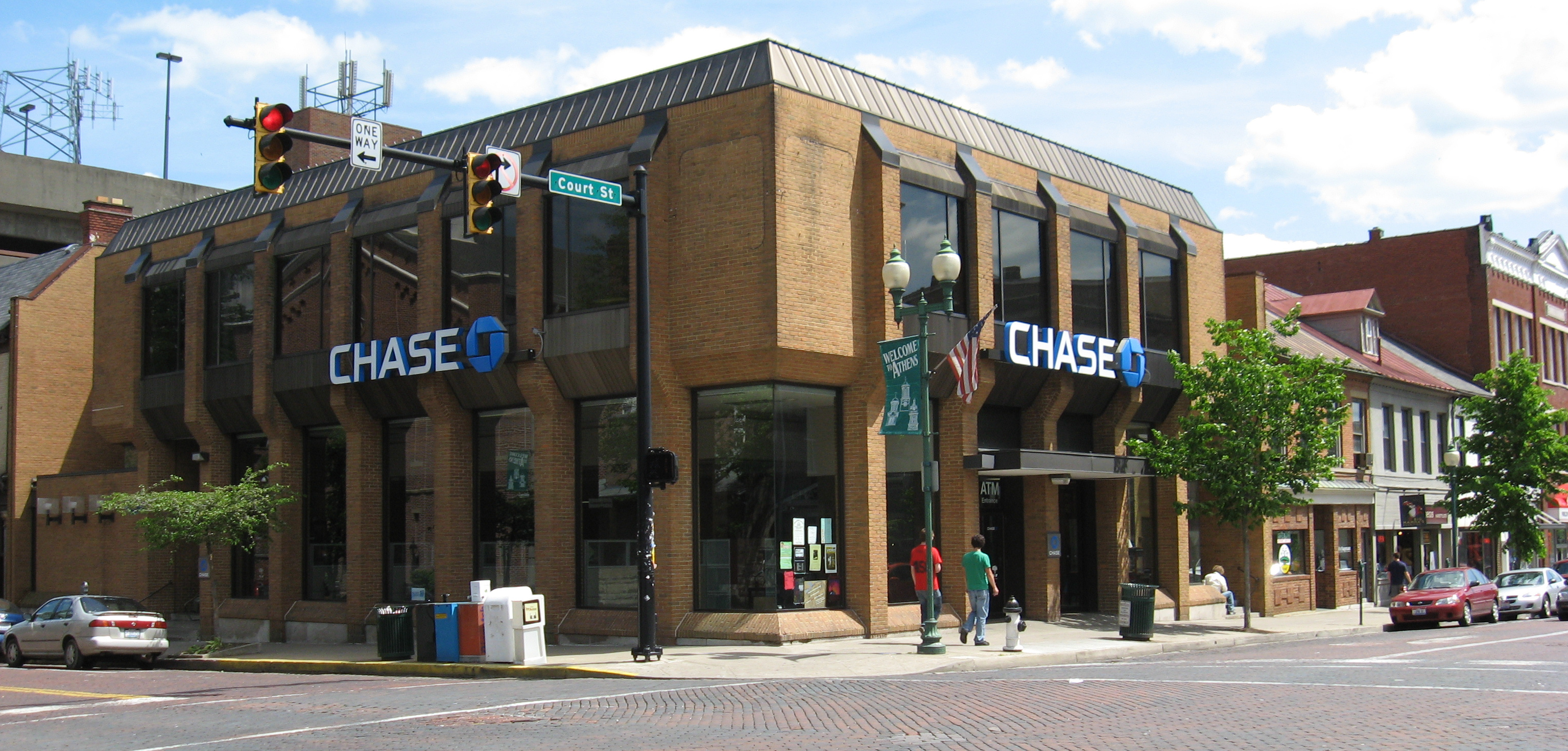 Chase Bank branch (Athens, Ohio, USA)